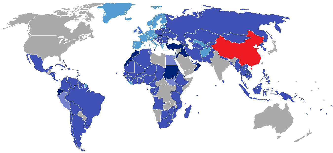 Visa policy of China for holders of official passports